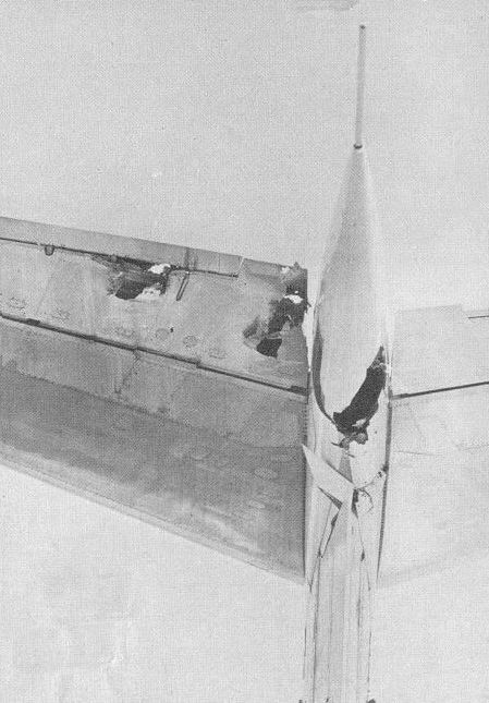 The damaged tail of the royal Boeing 727 after the 1972 Moroccan coup attempt.